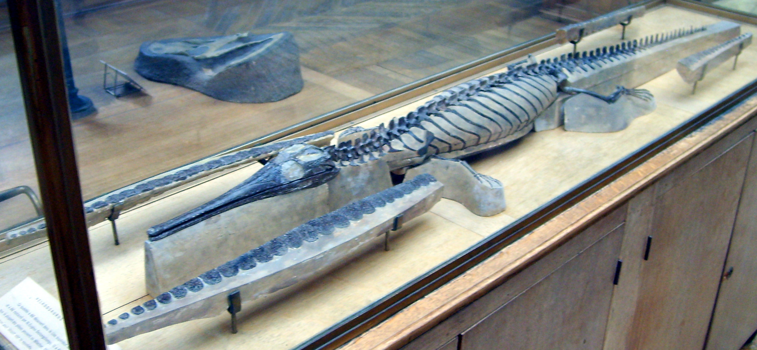 Pelagosaurus typus skeleton and scutes, Muséum national d'histoire naturelle, Paris.